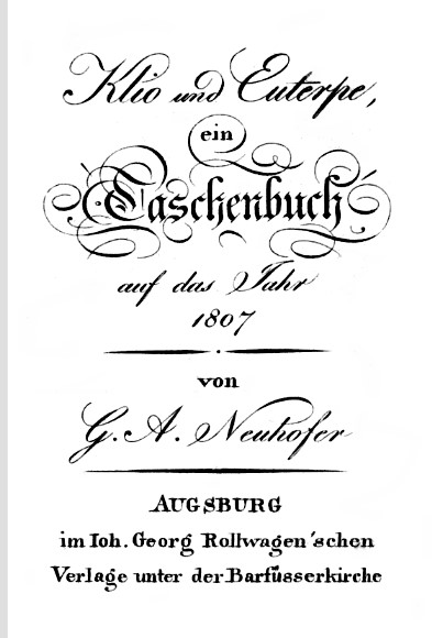 Title page of Neuhofer's almanac